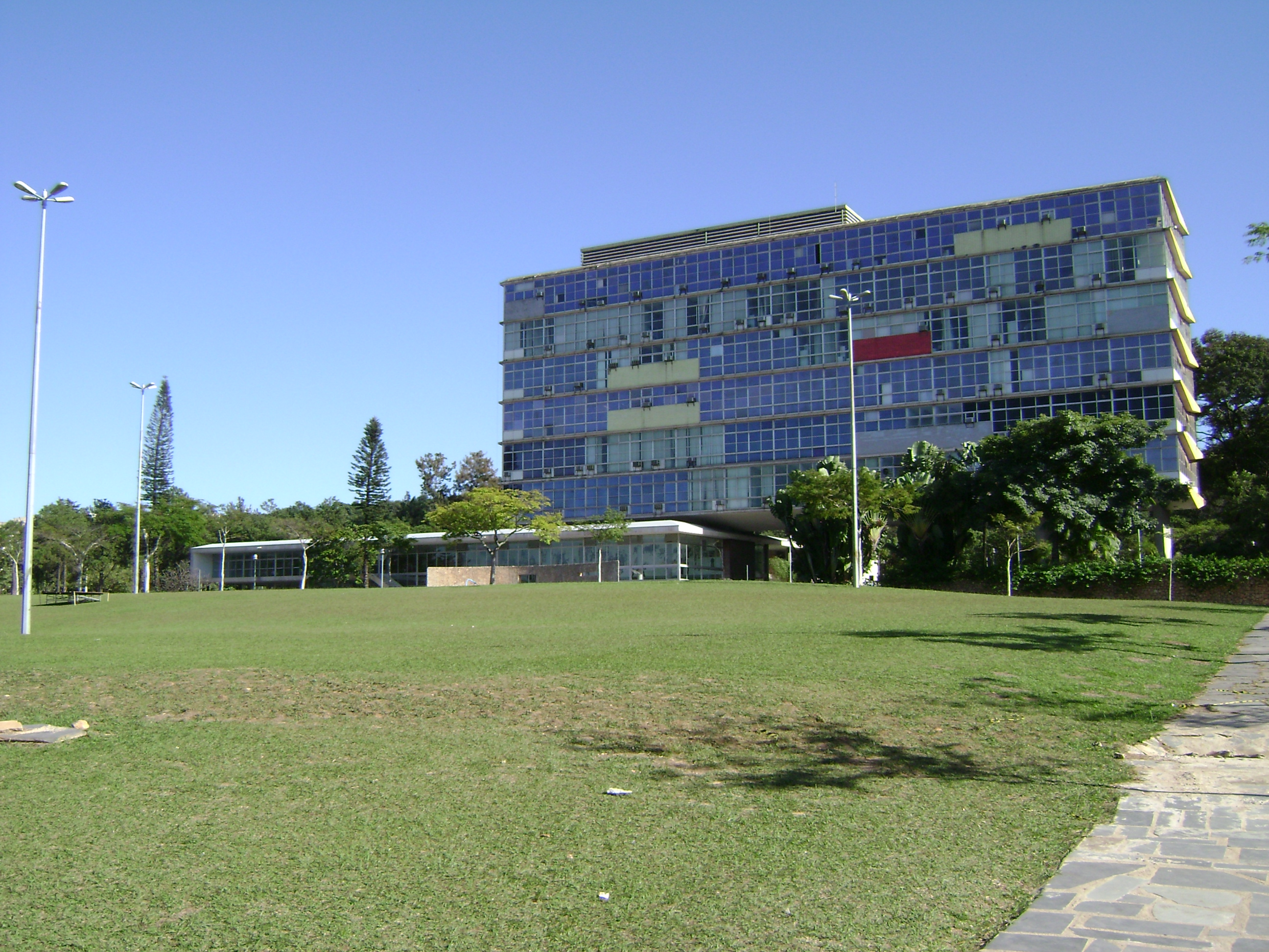 Reitoria de UFMG.